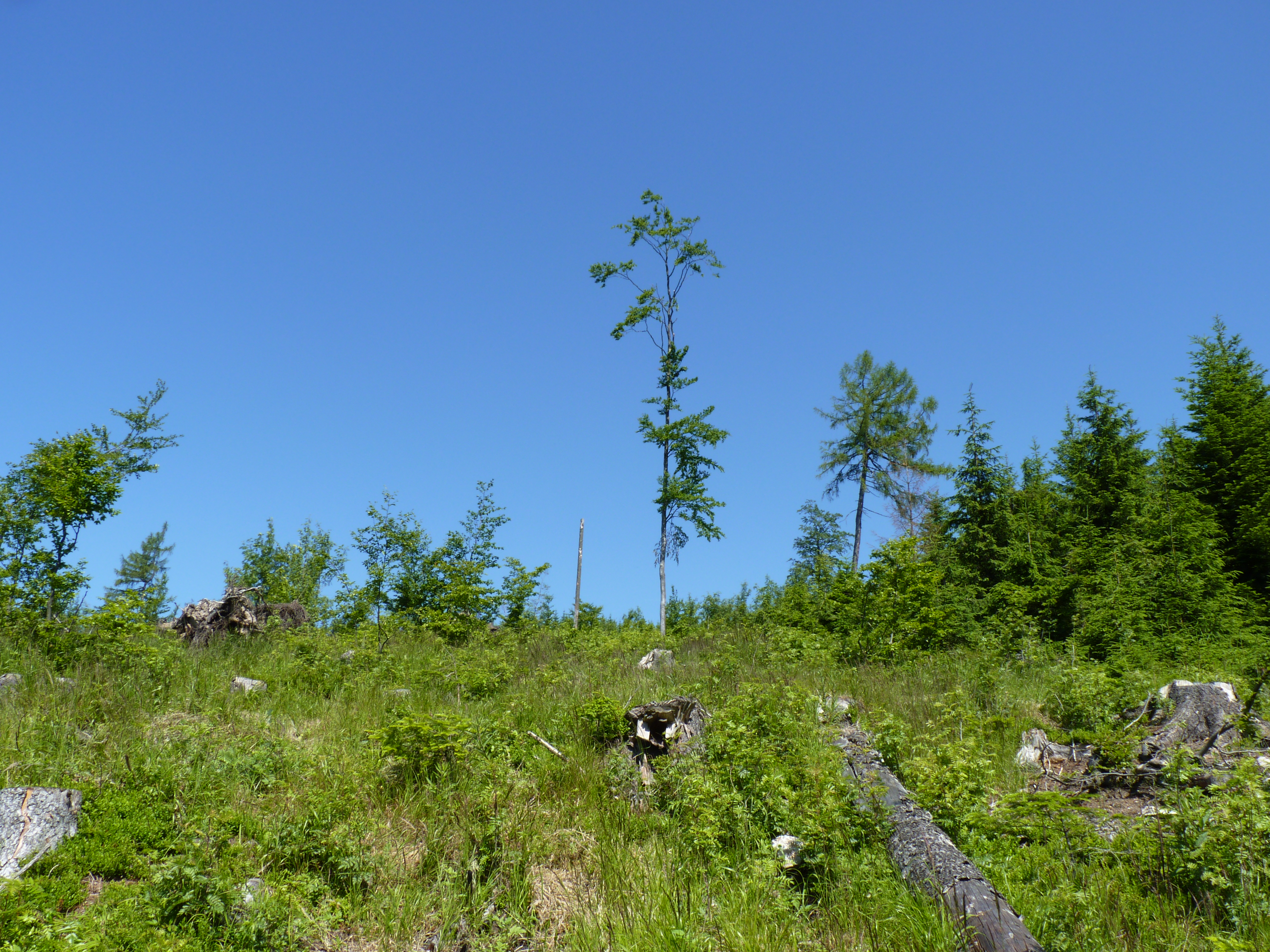 Moravian-Silesian Beskids, Czech Republic